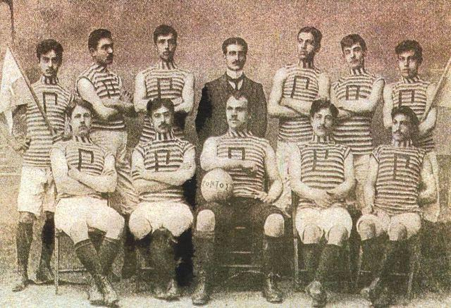 Pontian Greek soccer team called 'Pontos'